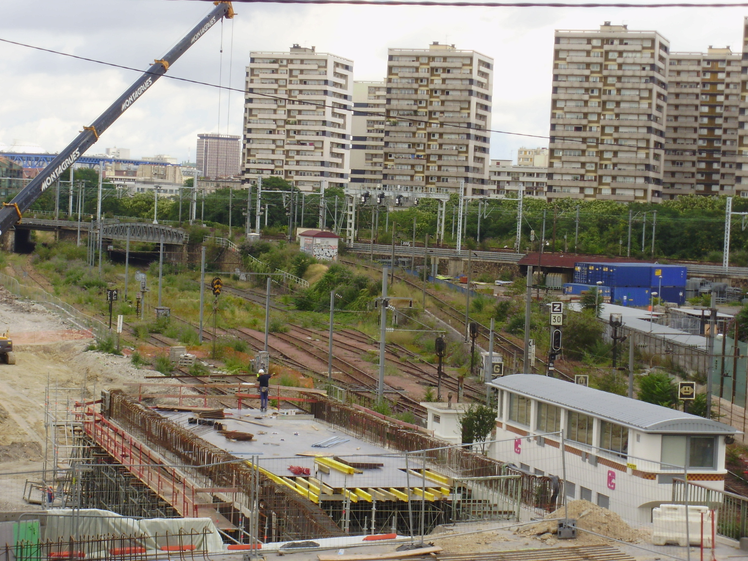 Settlement area of the Évangile station, Paris 19e arrondissement, France, east of the bridge of the rue d'Aubervilliers